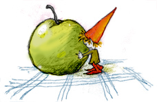 Modern vision of a nisse, a creature from Scandinavian folklore.